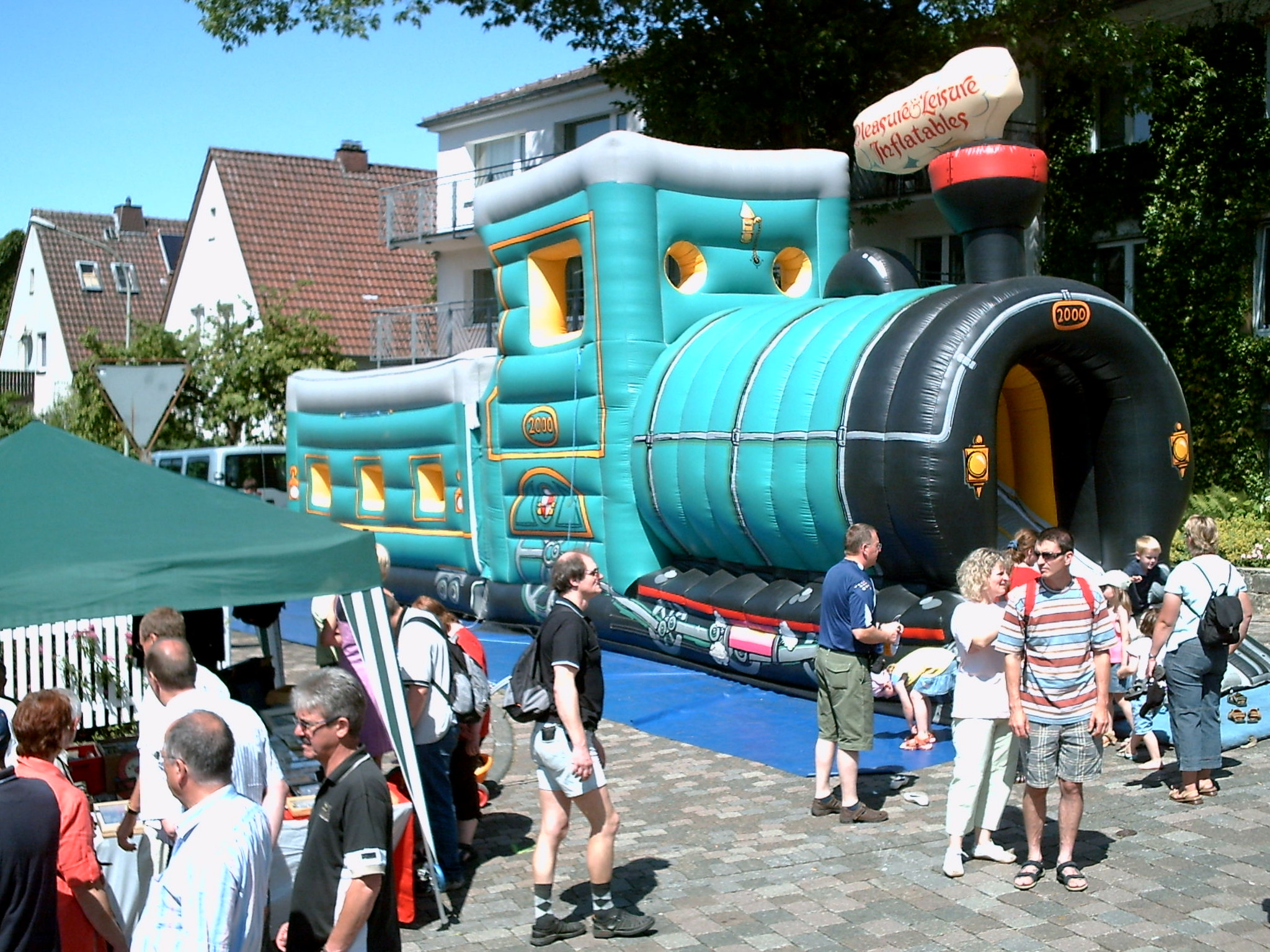 Altenbeken, Germany: Vivat Viadukt 2009: Lokomotive as a slide